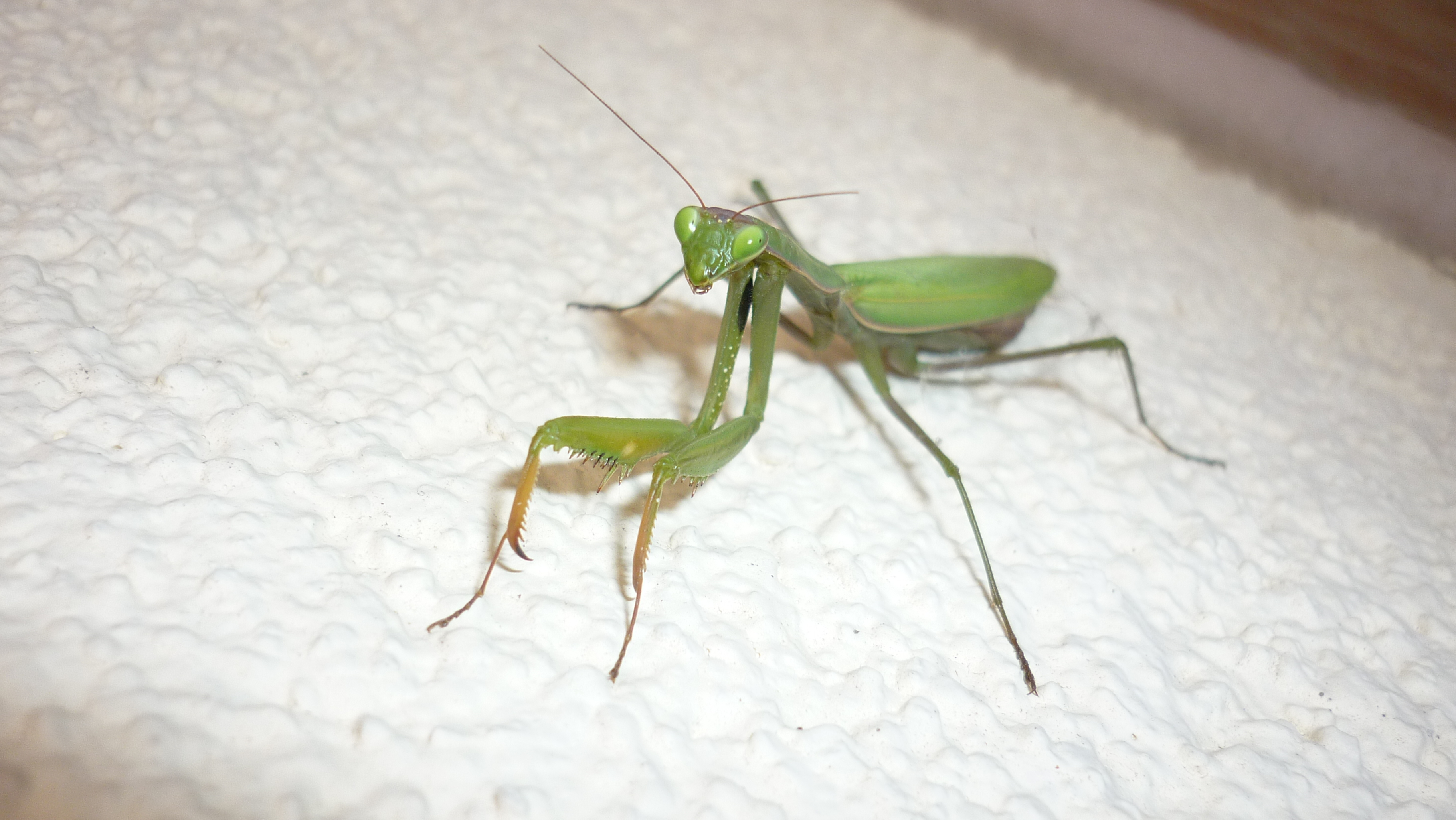 Mantis religiosa